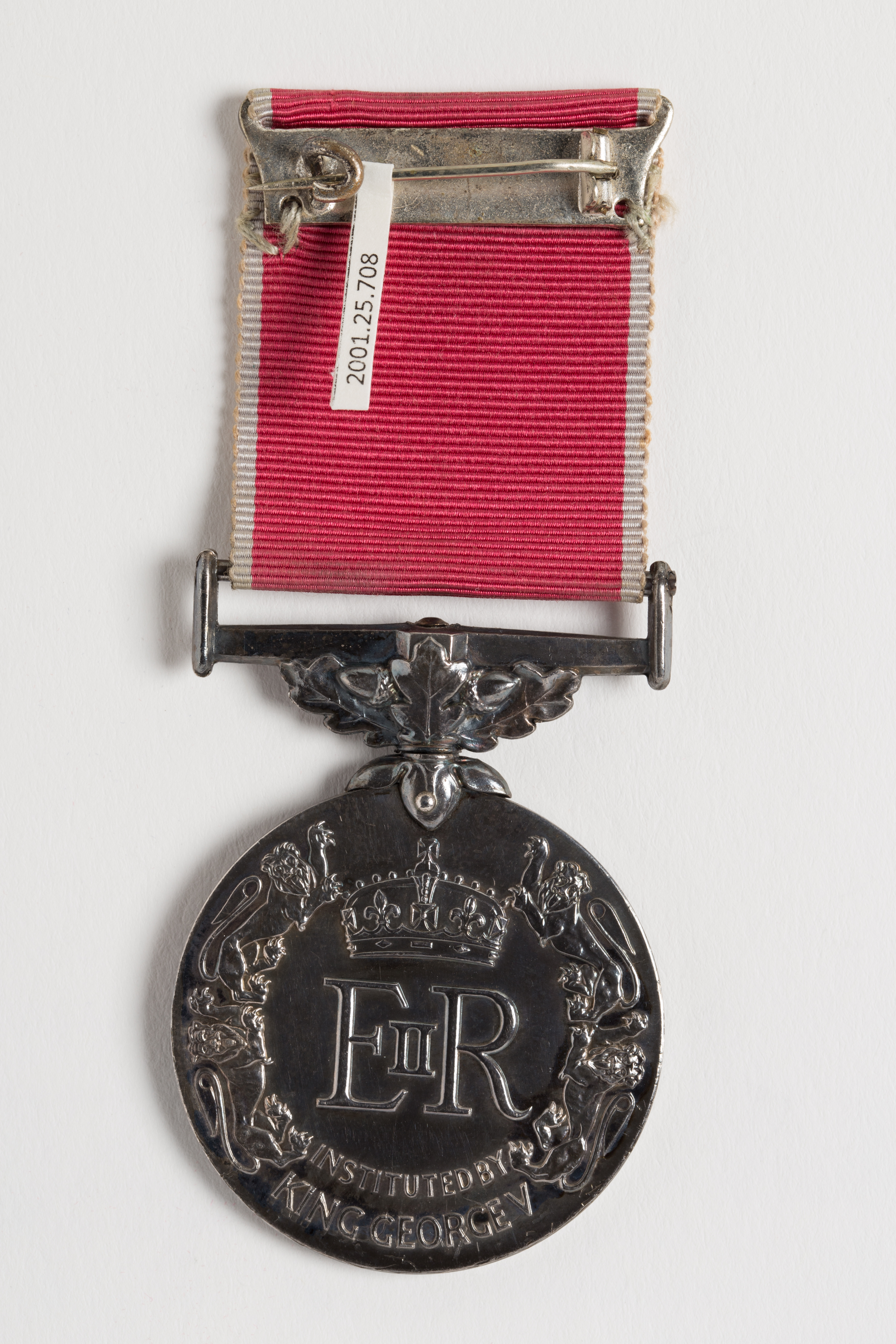 British Empire Medal (Civ) (BEM) ERII Awarded to James Gordon Mearns (RNZAF) silver circular medal; non-swivelling suspension with oak leaf and acorn decoration; with ribbon; pin fastening on reverse obverse- Britannia, seated, with sun; legend- FOR GOD AND THE EMPIRE; in exergue- FOR - MERITORIOUS - SERVICE reverse- royal cypher- EIIR; surmounted by crown; surrounded by four lions; legend below- INSTITUTED BY - KING GEORGE V markings- inscribed- JAMES GORDON MEARNS ribbon- grosgrain; 32mm; red with narrow grey stripes at edges